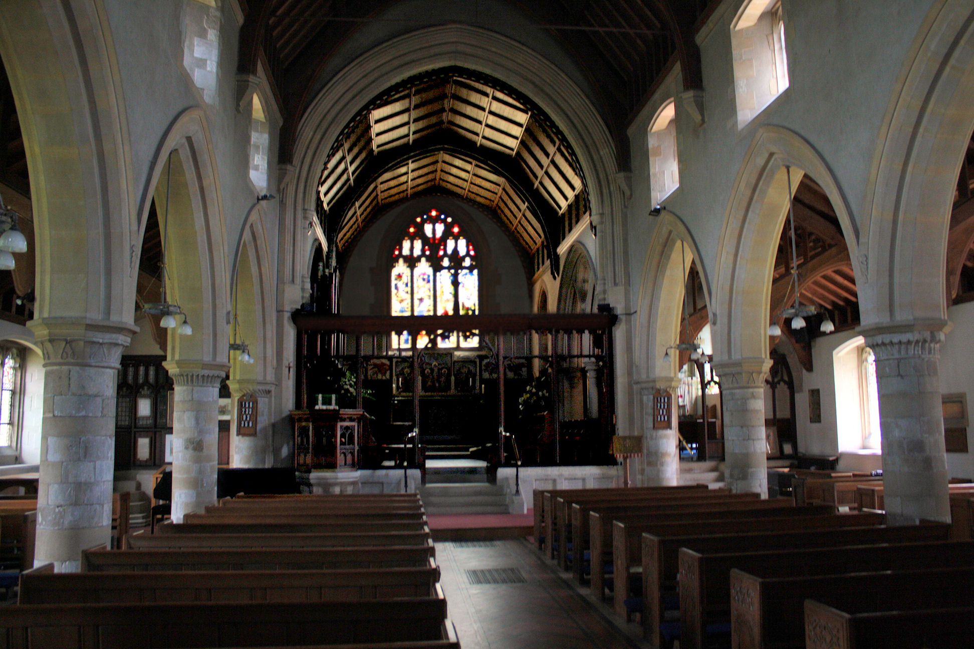 "Probably the first, Saxon church in Twyford was mentioned in the Domesday Book in AD 1088. This was replaced by a Norman church in the 12th Century, extensively rebuilt in 1402, although the basic structure of the Norman church remained in place. It is quite possible that the renowned conical yew was planted at about this time, as in 1988 the Yew Tree Conservation Foundation judged it to be 450 years old. By the early 1870s the old church was no longer able to accommodate everyone who wanted to attend services, and a replacement building in the Gothic style by the famous Victorian architect Alfred Waterhouse was opened in 1878. The ancient columns of the Norman building and some features of the 1402 building were incorporated in the new building - the East window (now in the Lady Chapel), the clerestory windows which were re-used, and the priest's entrance on the North side of the Vestry. The beautiful square-headed perpendicular window now in the East wall of the Vestry is thought to date from a later embellishment carried out in about 1520. The Vicar, the Revd Roger Buston, appointed in 1849, had devoted a lot of effort to making his services more attractive, building upon the musical tradition of the church with great success. It was on his initiative that a new pipe organ built by J W Walker of London had been installed in 1867, replacing a barrel organ of 1838. This organ was reinstalled in the new church. Few changes have been made since 1878. A new Lady Chapel, at the South East corner of the church, was presented in 1924 by the Revd Smith-Dampier, in memory of his parents who had lived at Twyford House. In 1965, the original tinted glass of the West window was replaced by a beautiful, predominantly blue stained glass design by Miss Moira Forsyth. Two meeting rooms, a small kitchen and toilet facilities were built within the West end of the church in 1995, with a new gallery above the meeting rooms."